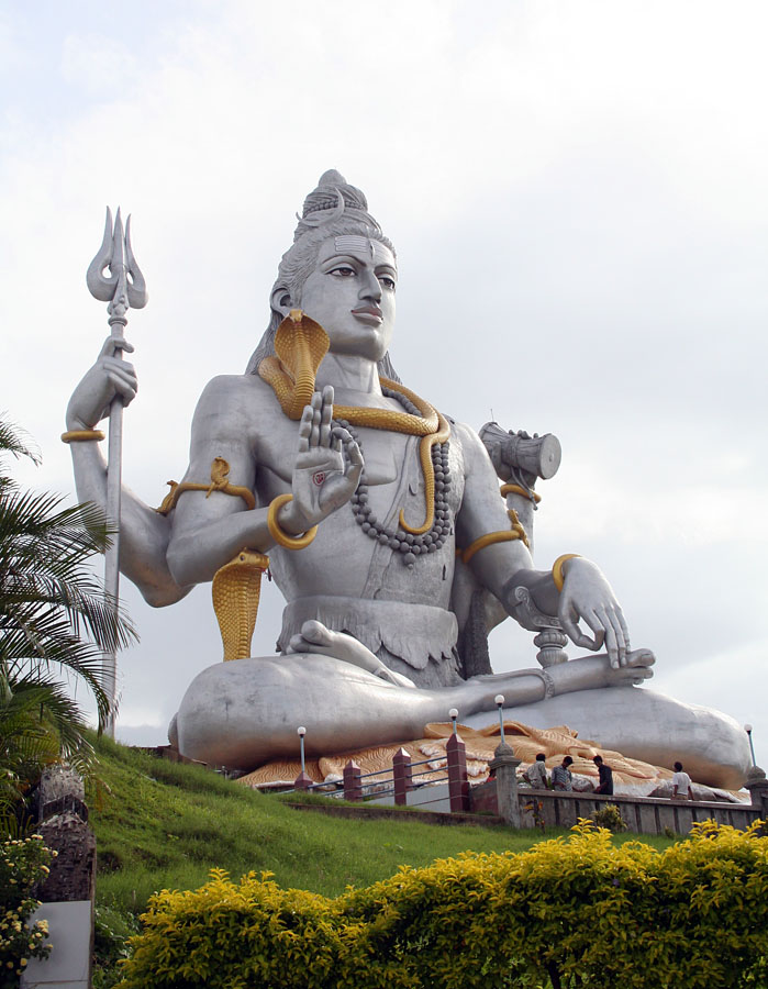 Shiva Statue at Murdeshwara temple.